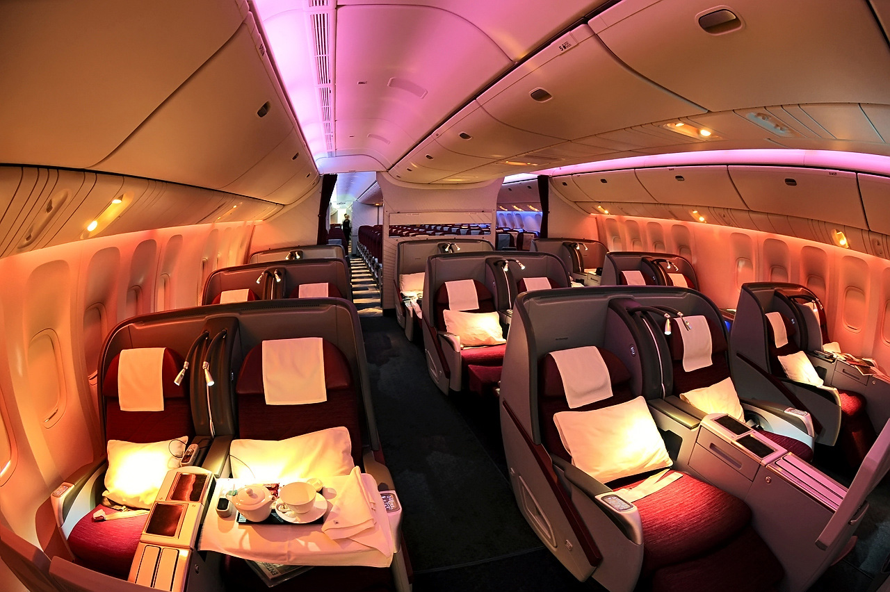 A7-BBH (cn 36102/885)